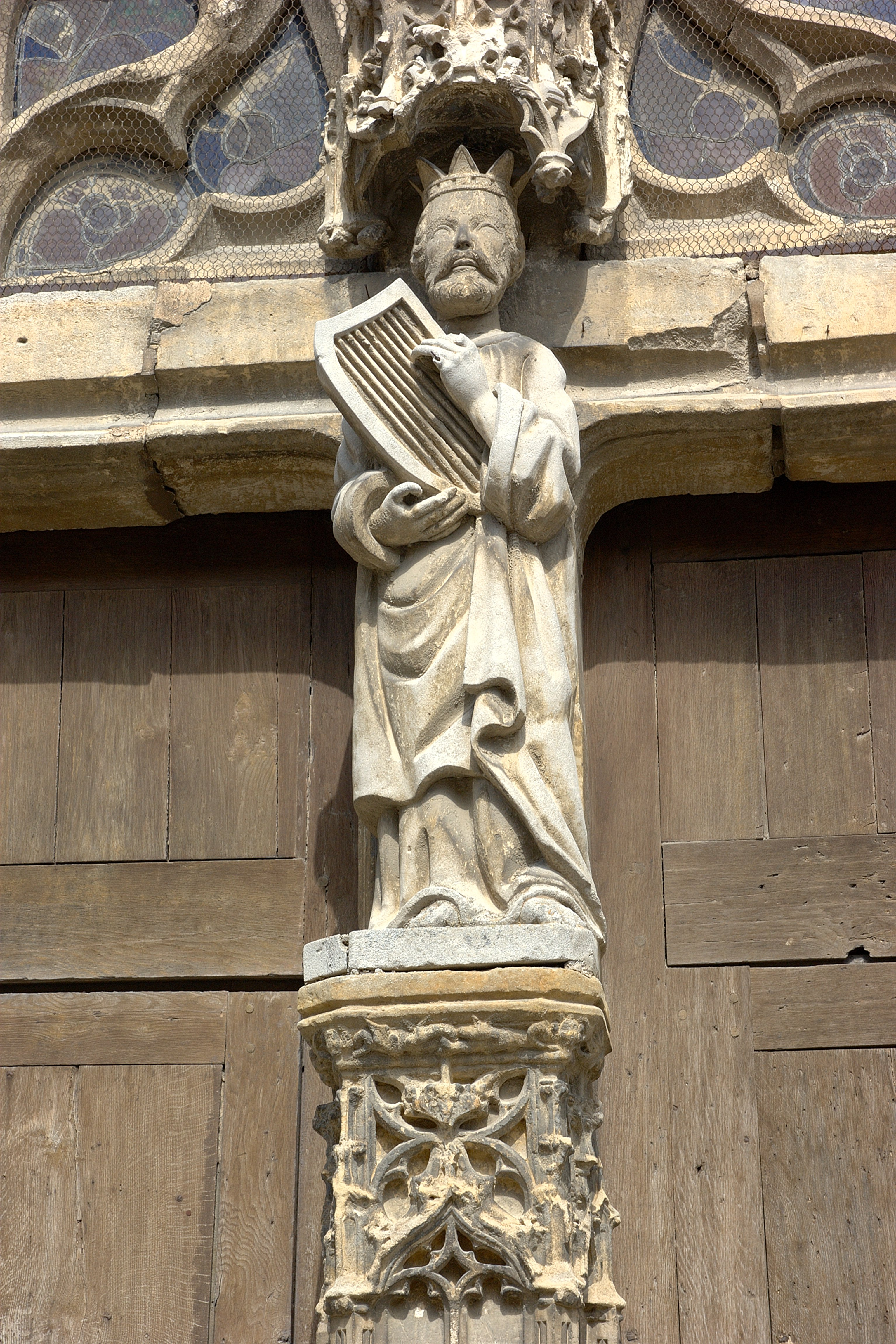 King David (portal of St-Trésain church in Avenay-Val-d'Or, Marne, France).